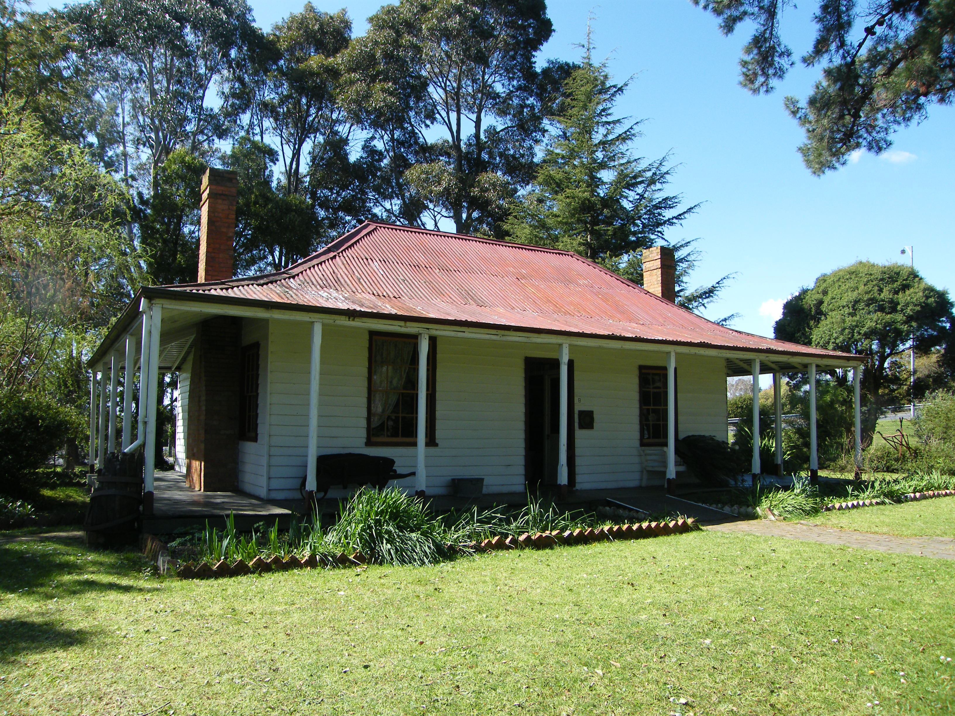 Built in the late 1840s on the Avon River between Boisdale and Briagolong for Angus McMillan, one of the early explorers of Gippsland, Bushy Park is now located at Old Gippstown in Moe.